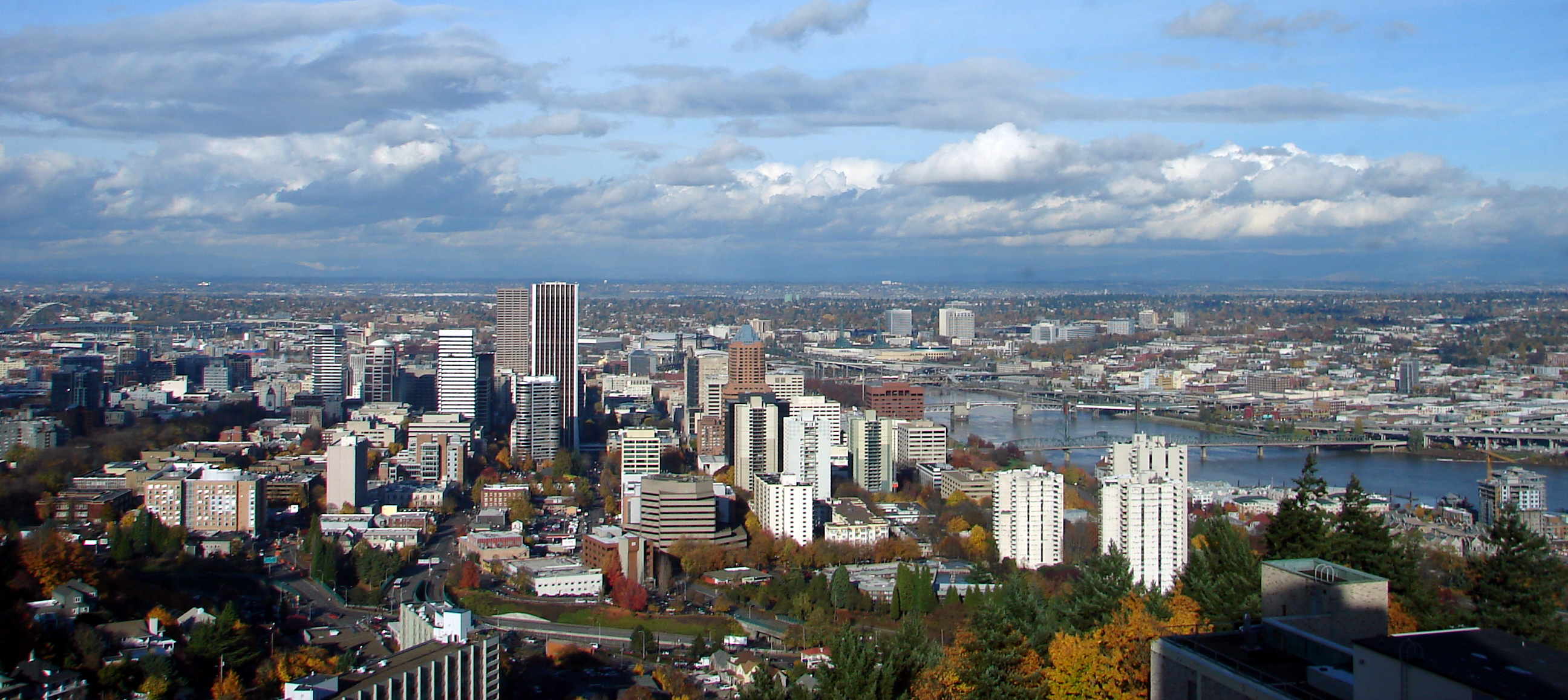 Portland's skyline from the South.